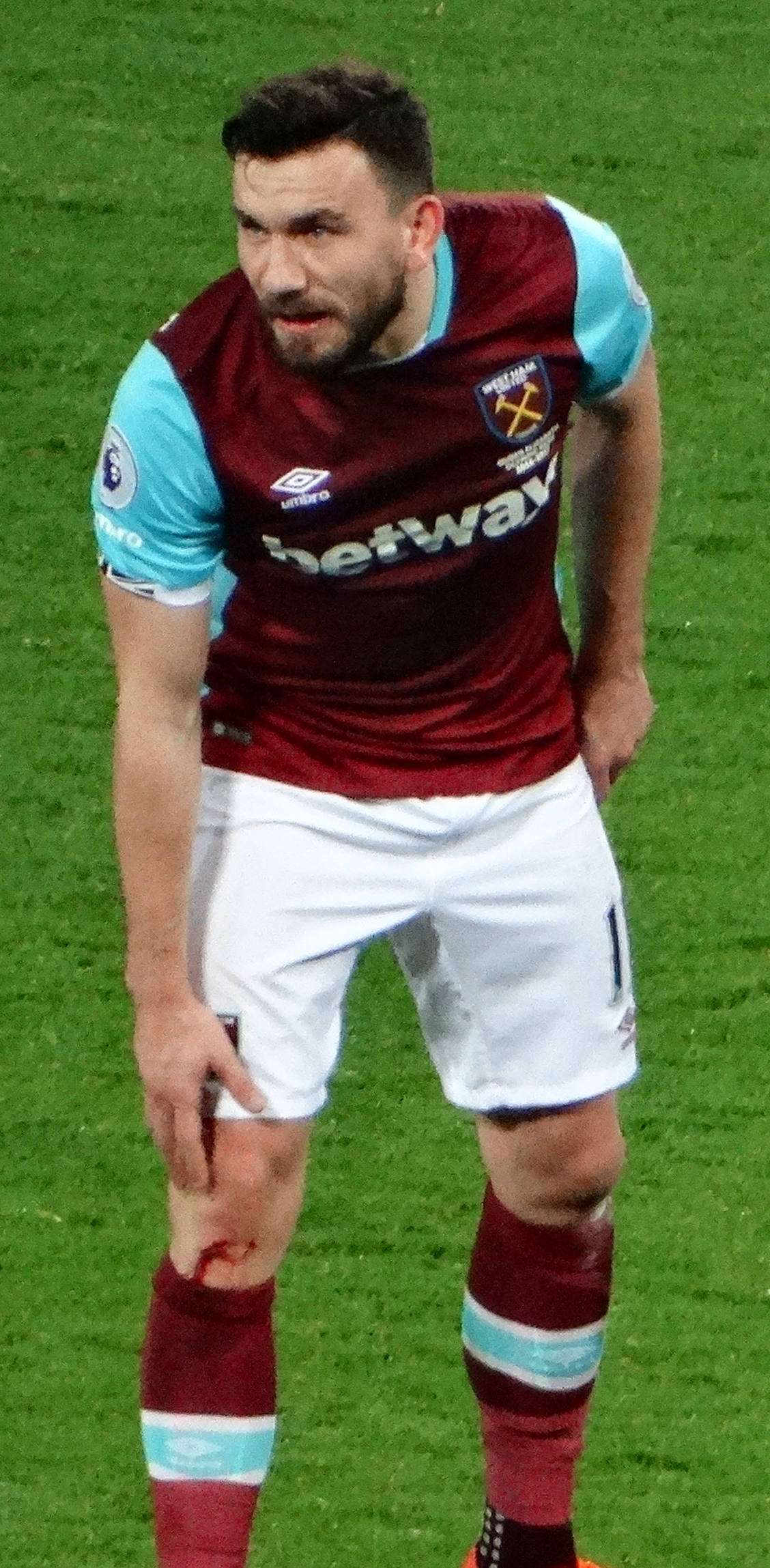 Robert Snodgrass playing for West Ham United against Chelsea at the Olympic Stadium, London on 6 March 2017